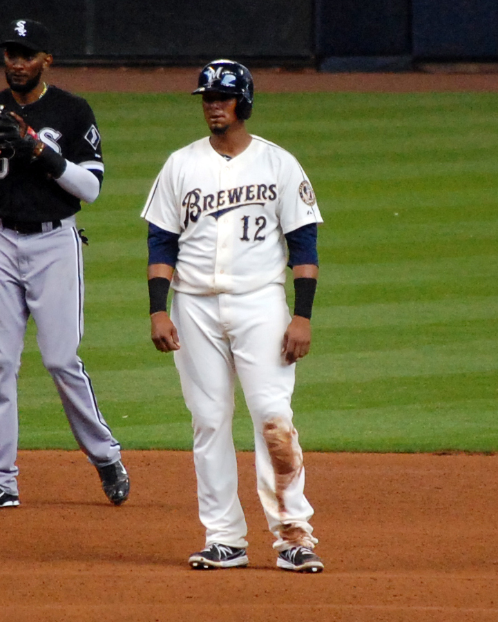 Martín Maldonado playing for the Milwaukee Brewers at Miller Park in Milwaukee, Wisconsin.